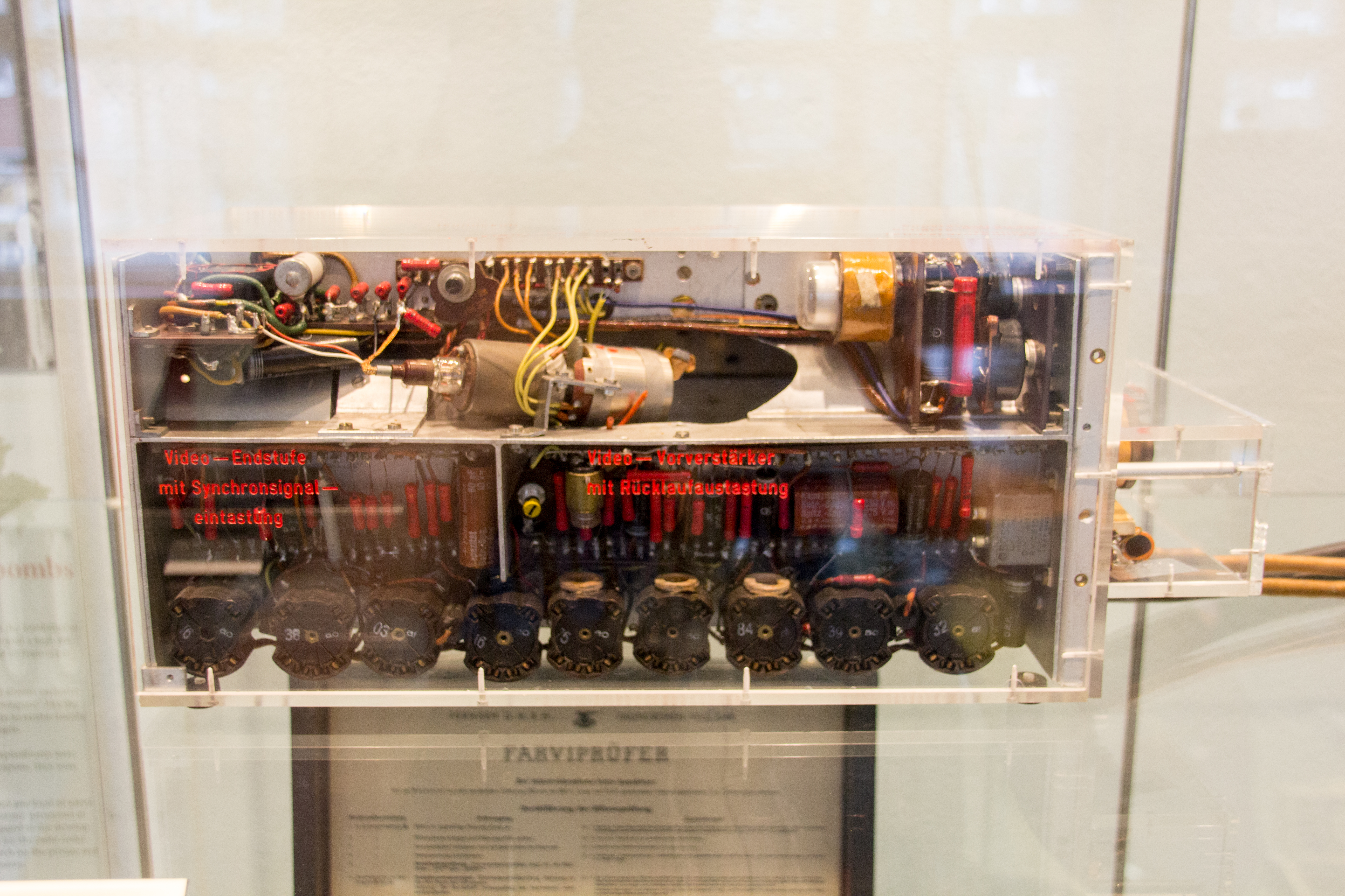 German Museum of Technology, Berlin, Germany. Television camera head. "Tonne", FB Sd 1, No. 2438. Fernseh GmbH (corporation) Berlin/Tannerwald 1943